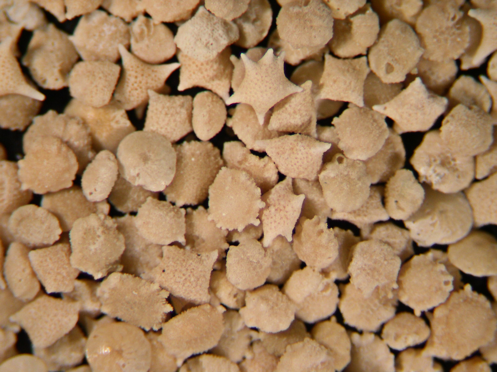 Cay foraminifera sand under a microscope, from Warraber Island - Torres Strait . Photo by DE Hart 2003.